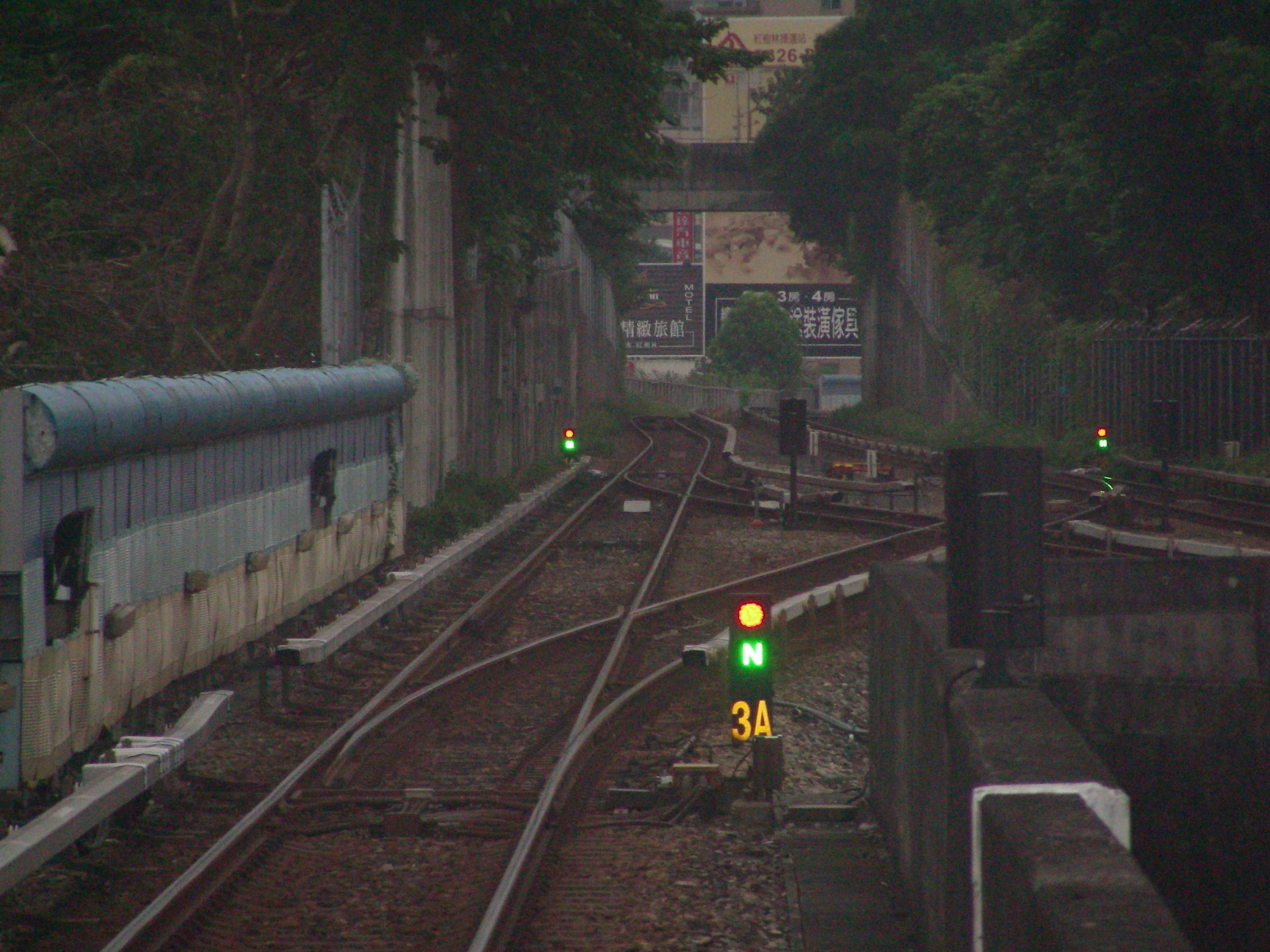 Taipei Metro railroad point in Tamsui Station.